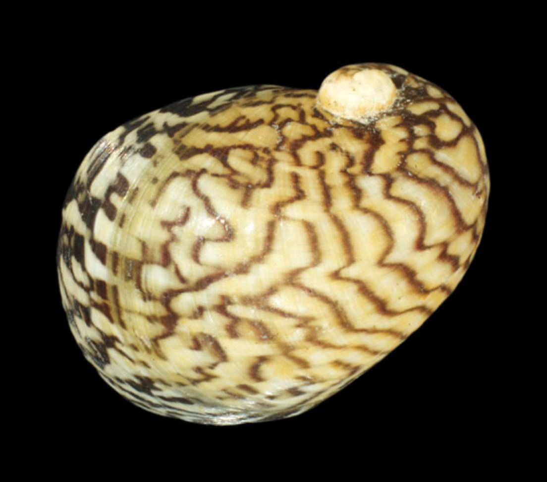 Photo of a shell of Thedoxus fluviatilis. Locality: Zeta River, Montenegro.